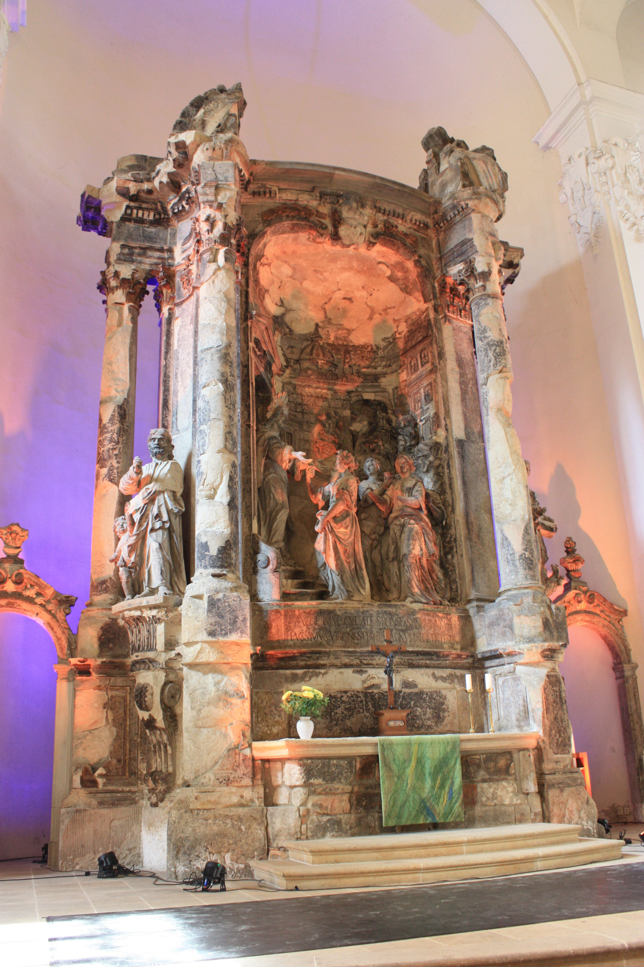 Altarpiece in the Dreikonigskirche (Church of the Magi-Three Kings) Neustadt, Dresden